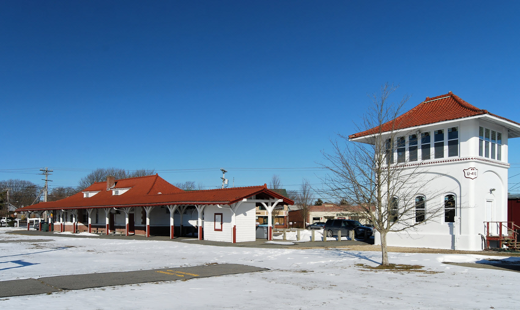 Railroad station and tower, Buzzards Bay, Massachusetts (Town of Bourne)